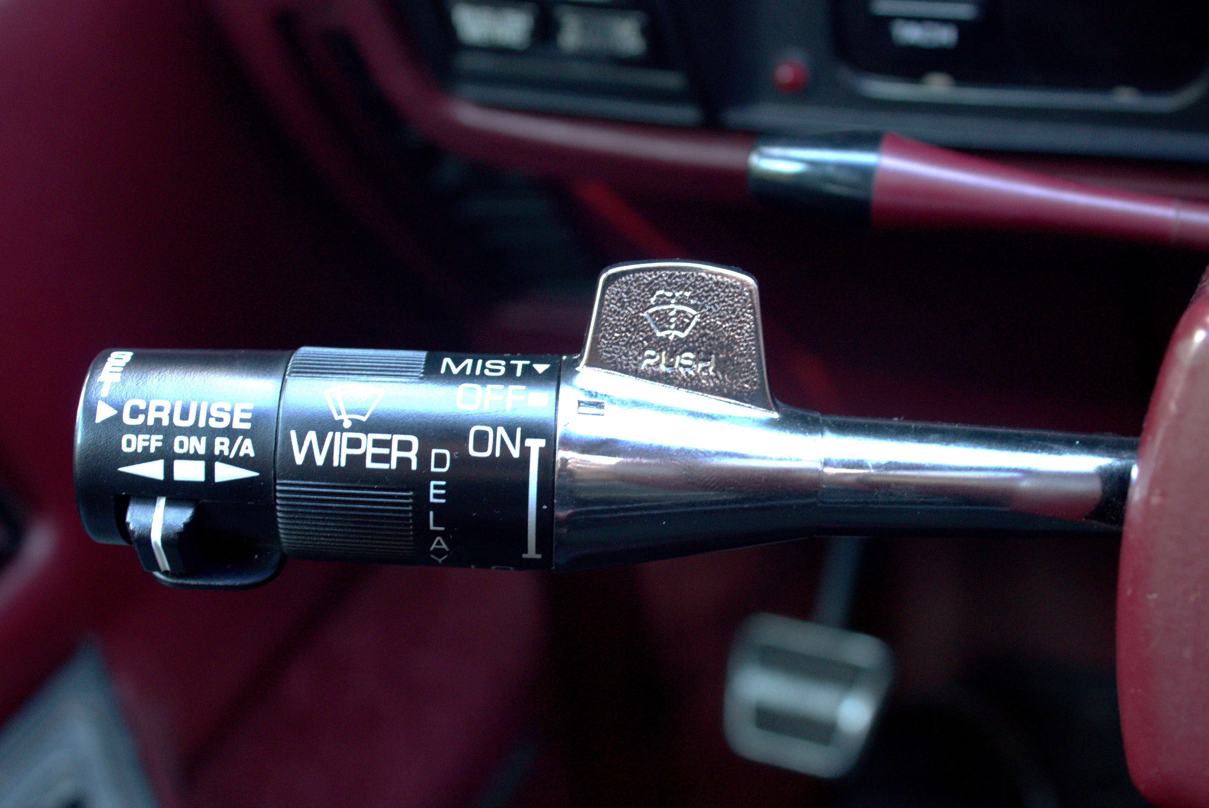 A typical multi-function turn-signal lever of General Motors vehicles built in the late 1980s, here on a 1987-issue Oldsmobile Toronado Troféo. It features special switches to operate cruise control (left), wipers (middle), and the windshield washer (right), in addition to the usual features: high-beam headlights (pull) and turn signals (tilt).